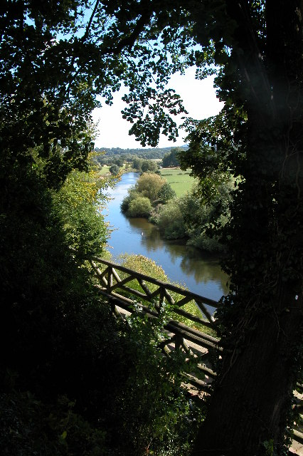 The Weir Gardens and the River Wye. The gardens are now in the care of the National Trust.